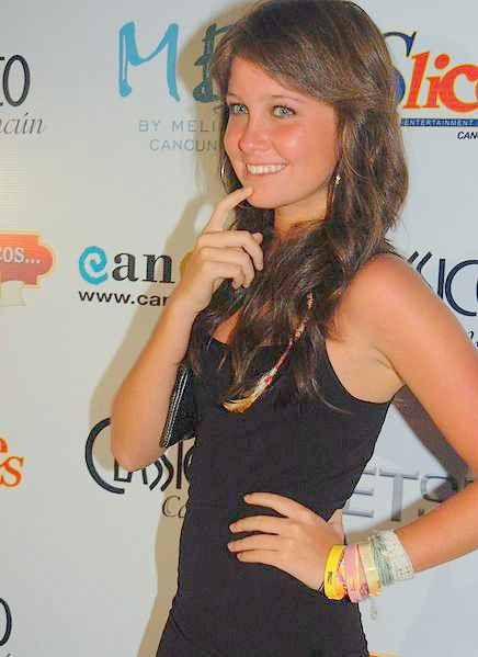 Mexican actress Natasha Dupeyrón attending an event in Cancún in 2009.